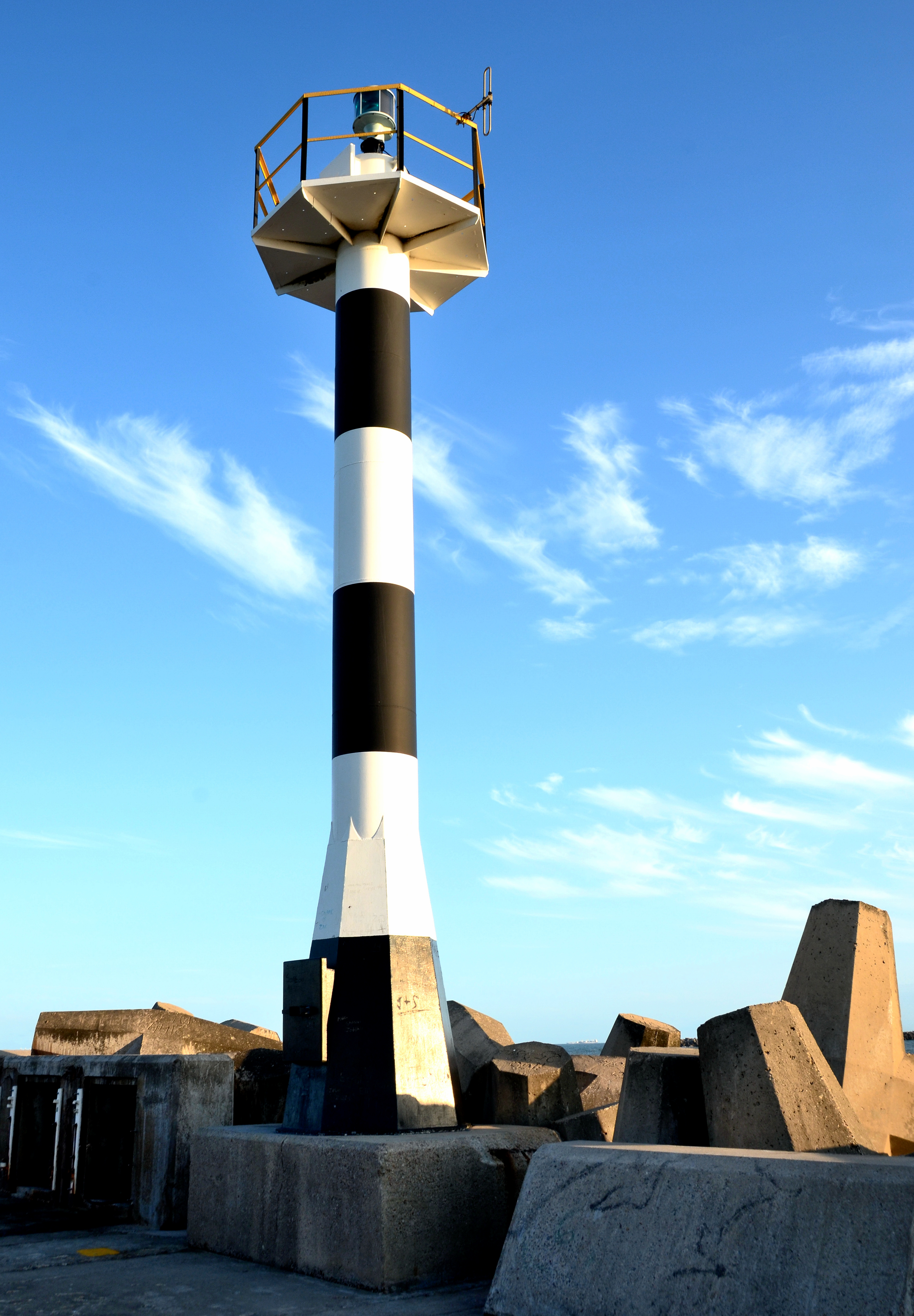 Richard's Bay, North breakwater head lighthouse, D 6483.45, at Richard's Bay, South Africa